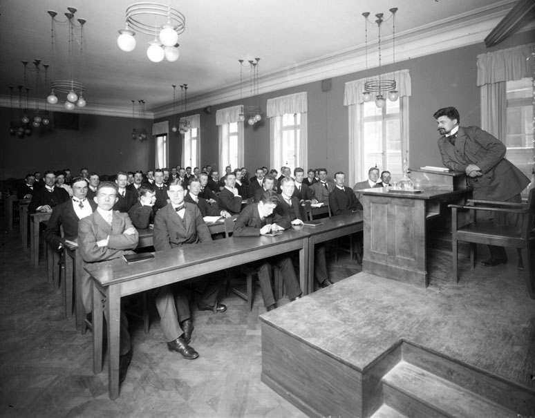 Lecture hall of the Stockholm School of Economics at Brunkebergstorg 2, Stockholm.